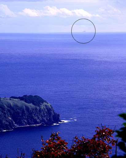 picture of dokdo